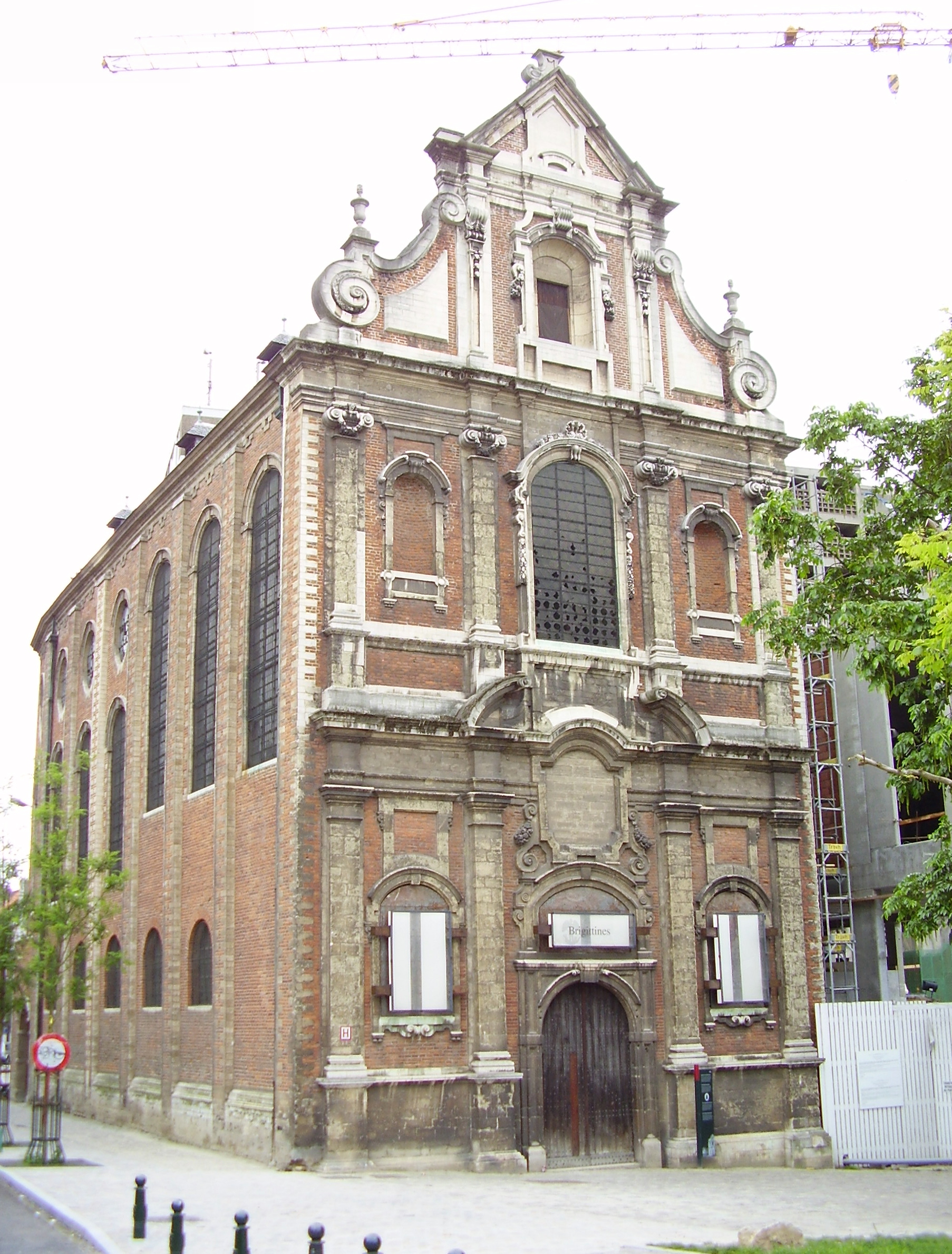 Description: Chapelle des Brigittines (Bruxelles) Author: User:Ben2 Date of creation: 08 juin 2006 Source: Photo personnelle